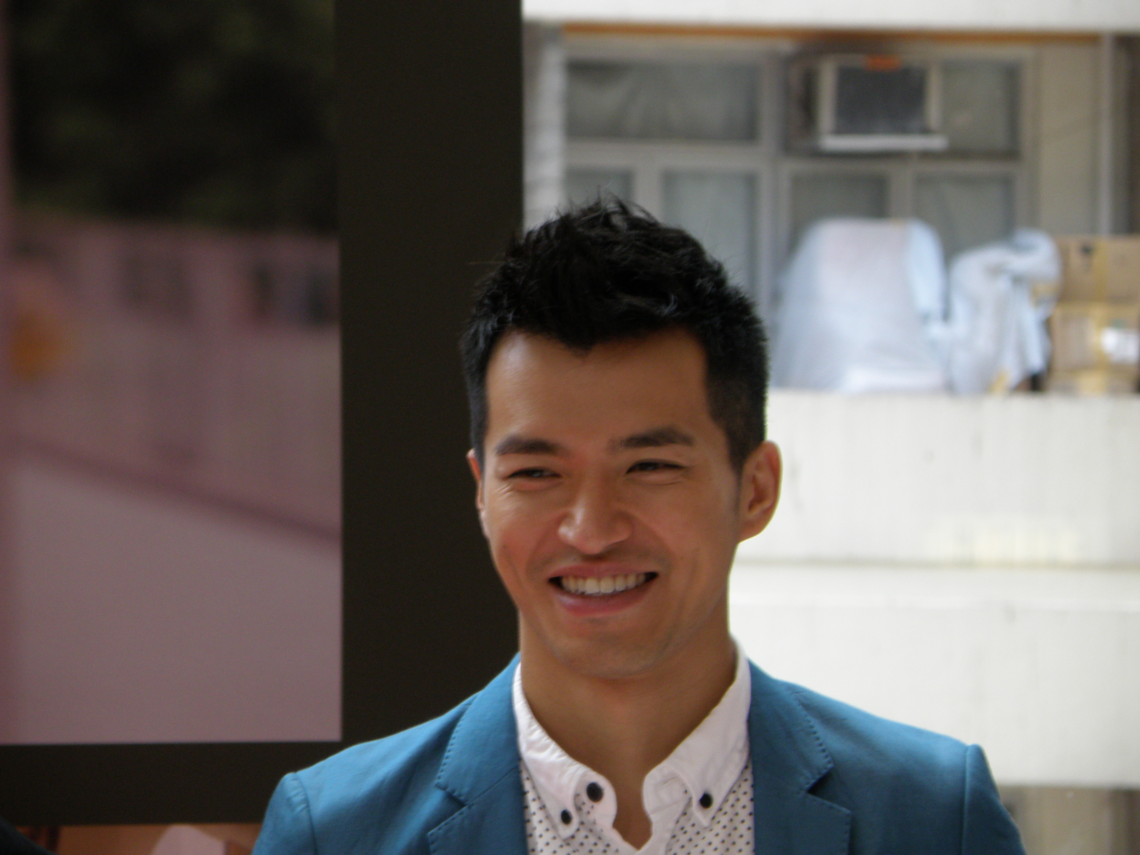 Jack Hui, Hong Kong TV actor, taken a TVB drama in The One.